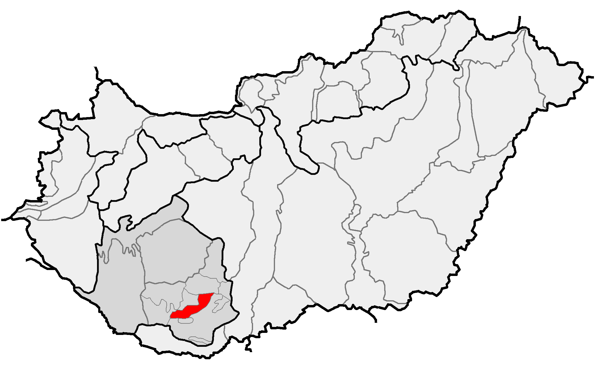 Location of geographical microregion of Mecsek-hegység (red) and macroregion of Dunántúli-dombság (gray) within subdivisions of Hungary.